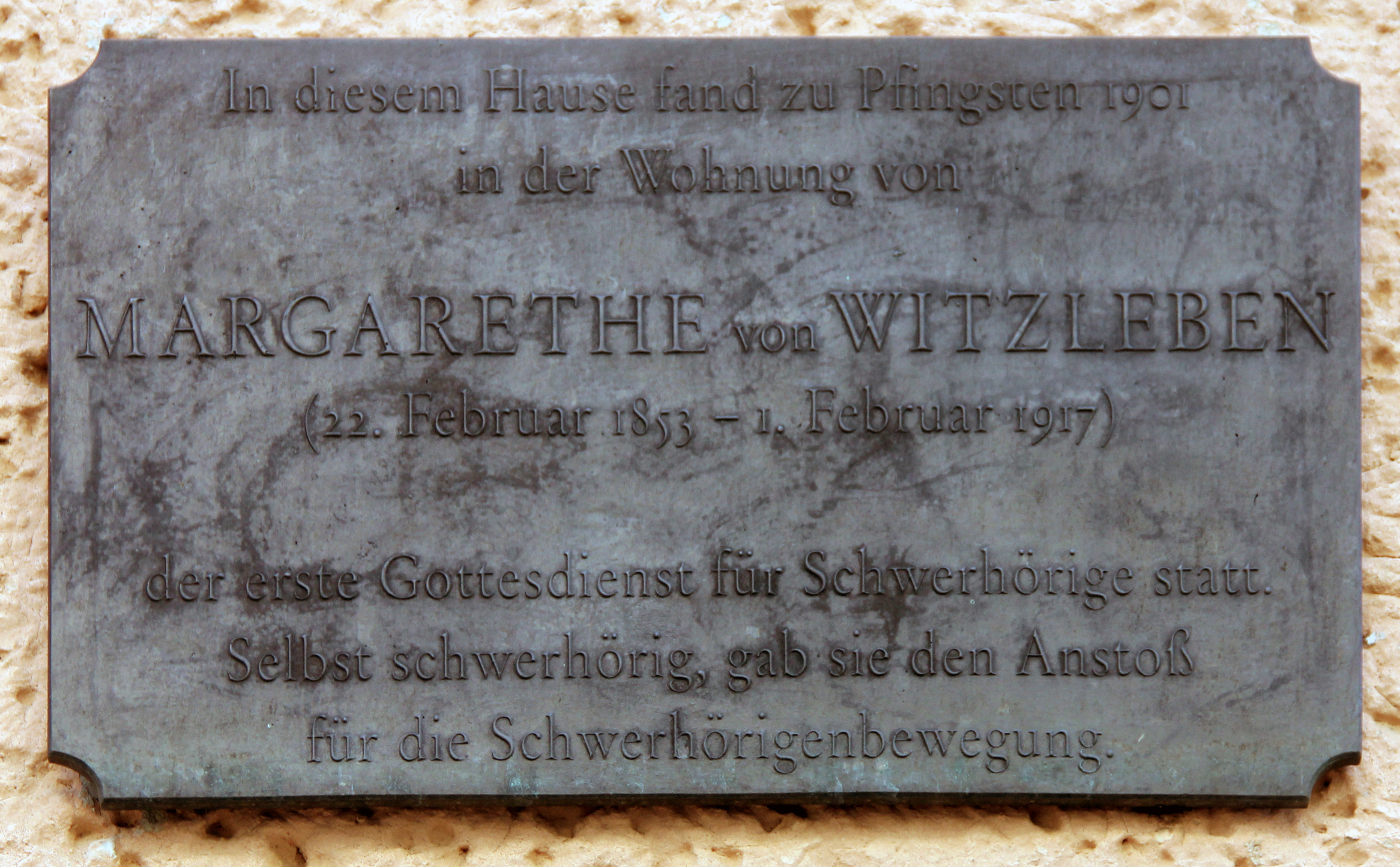 Memorial plaque, Margarethe von Witzleben, Tieckstraße 17, Berlin-Mitte, Deutschland